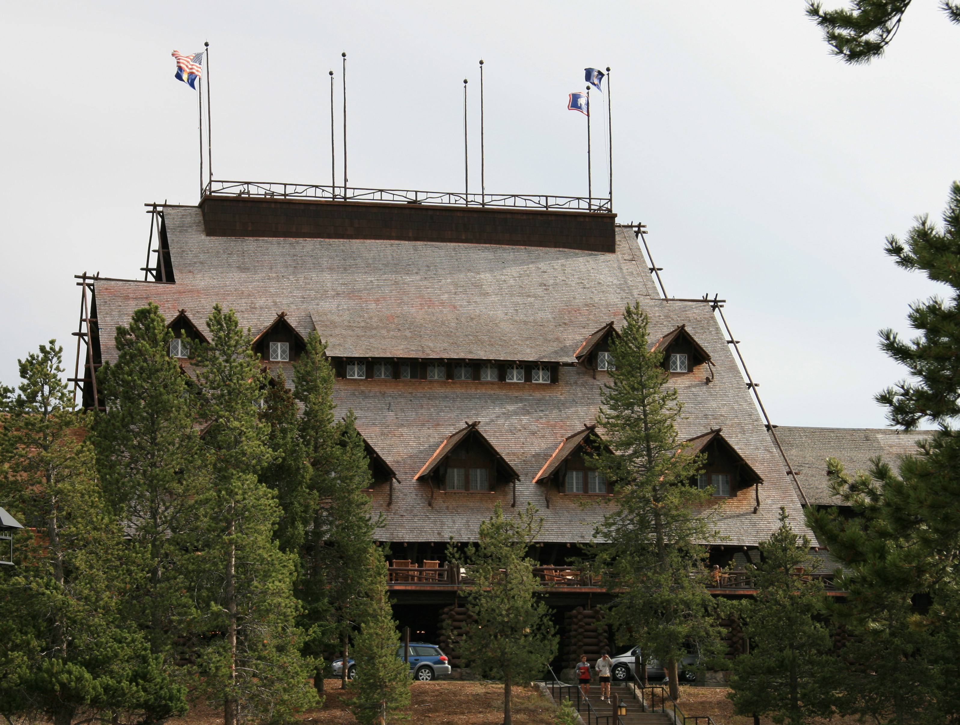 Old Faithful Inn, front elevation, Yellowstone National Park, Wyoming, USA